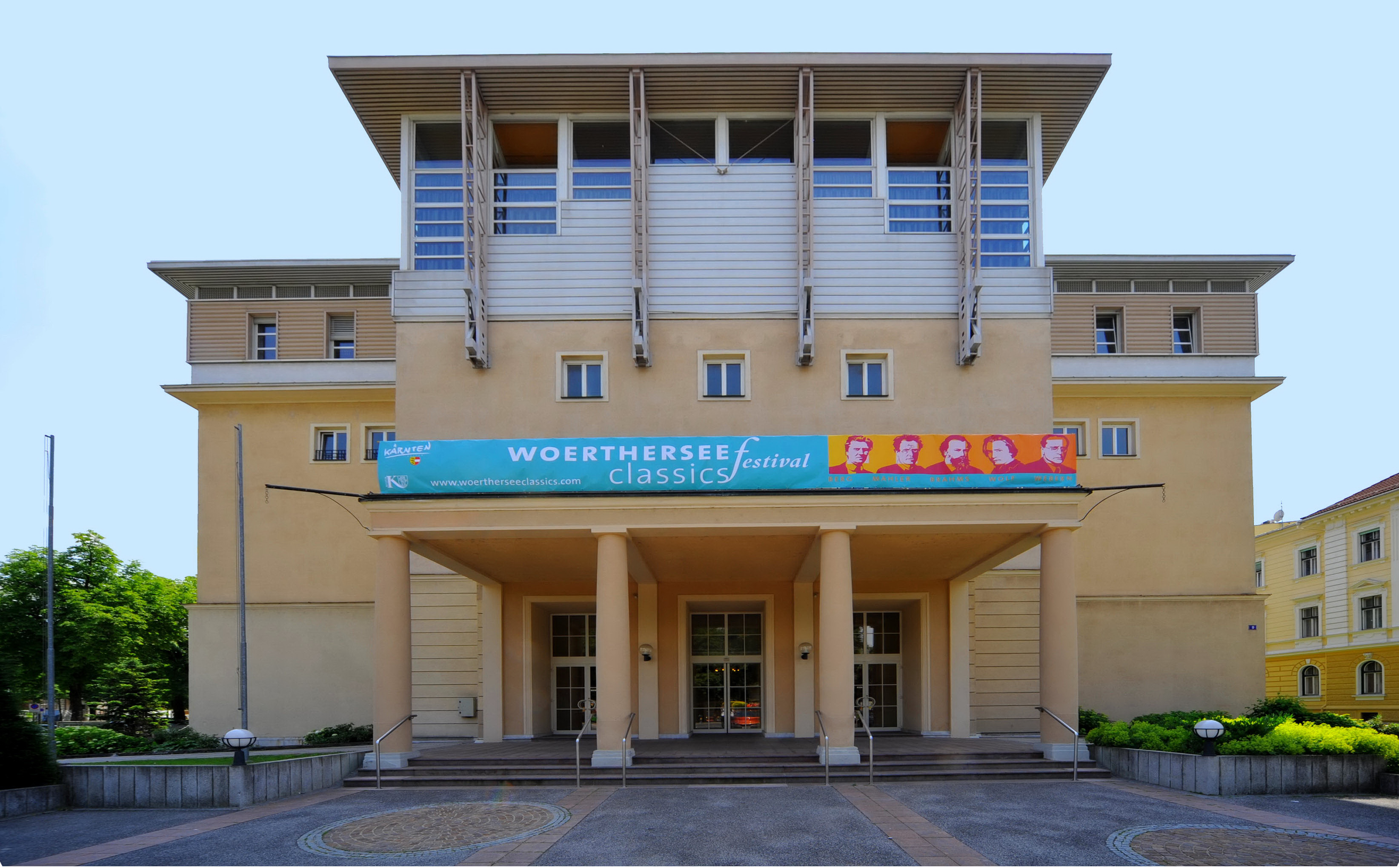 Music-hall on the Miesstalerstrasse #8, Inner City of the Carinthian capital Klagenfurt, Carinthia, Austria